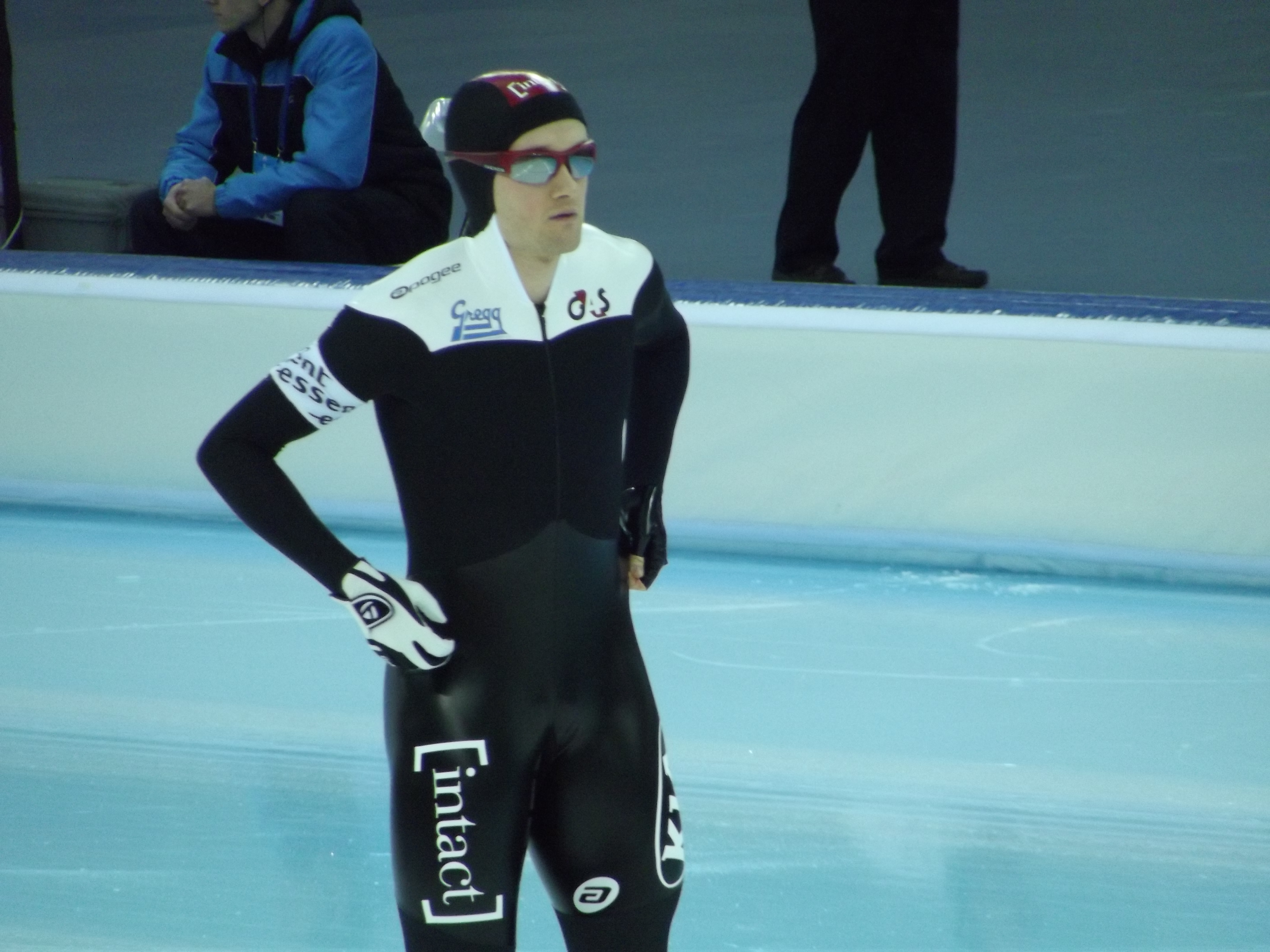 2013 World Single Distance Speed Skating Championships